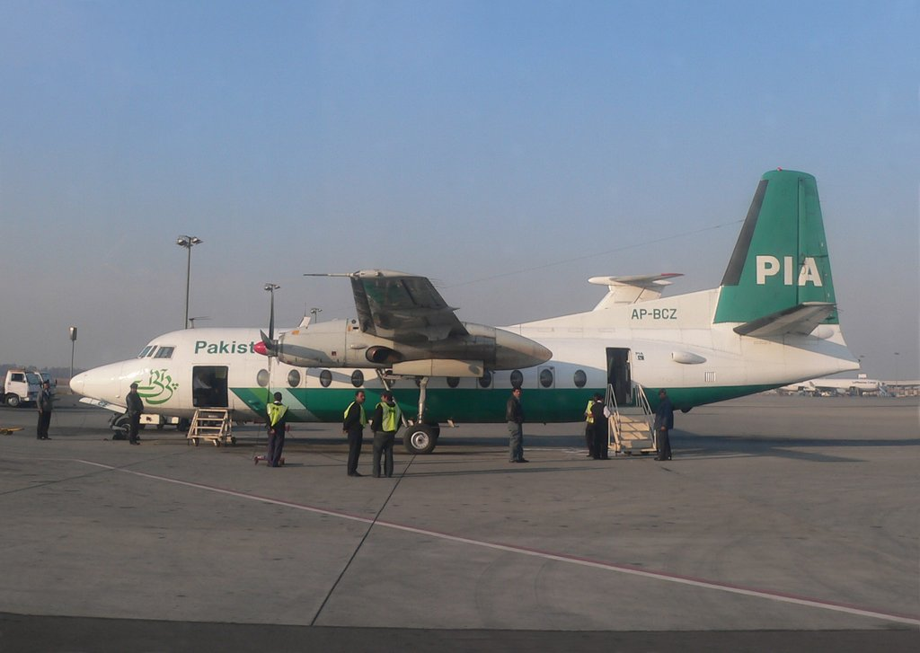 A Pakistan International Airlines Fokker F27 at Lahore International Airport , Pakistan.